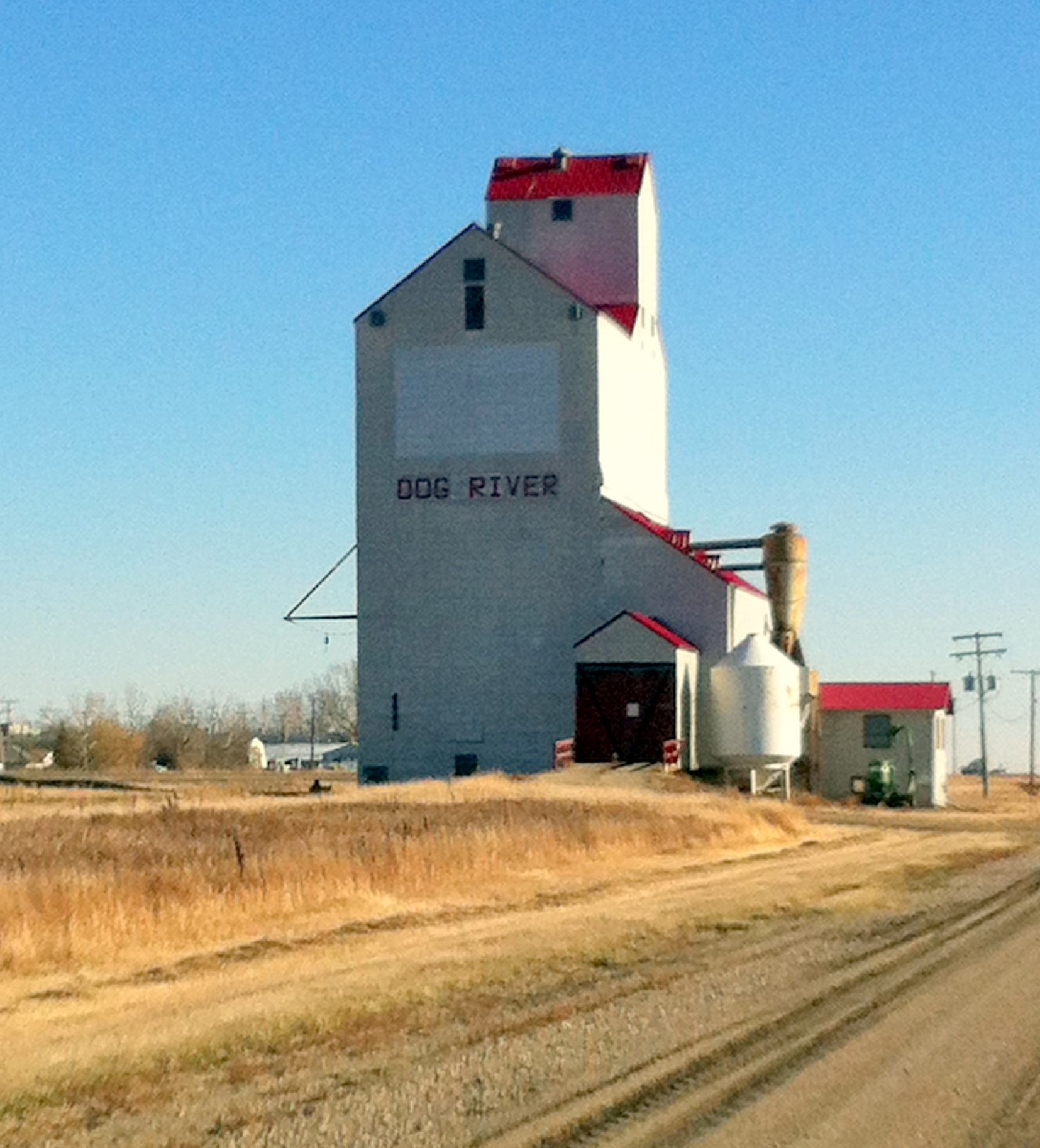 The grain elevator in Rouleau, Saskatchewan repainted for the TV show Corner Gas.